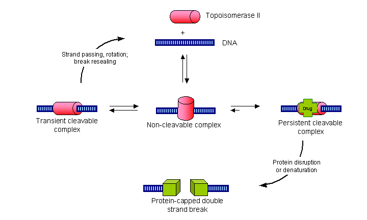 Topoisomerase binding with DNA